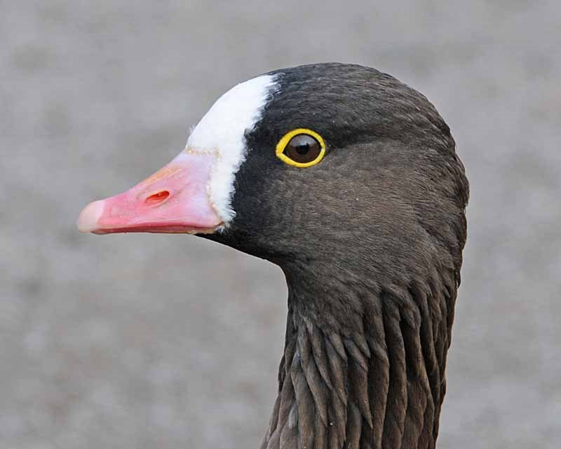 A Lesser White-fronted Goose at WWT Slimbridge, Gloucestershire, England.